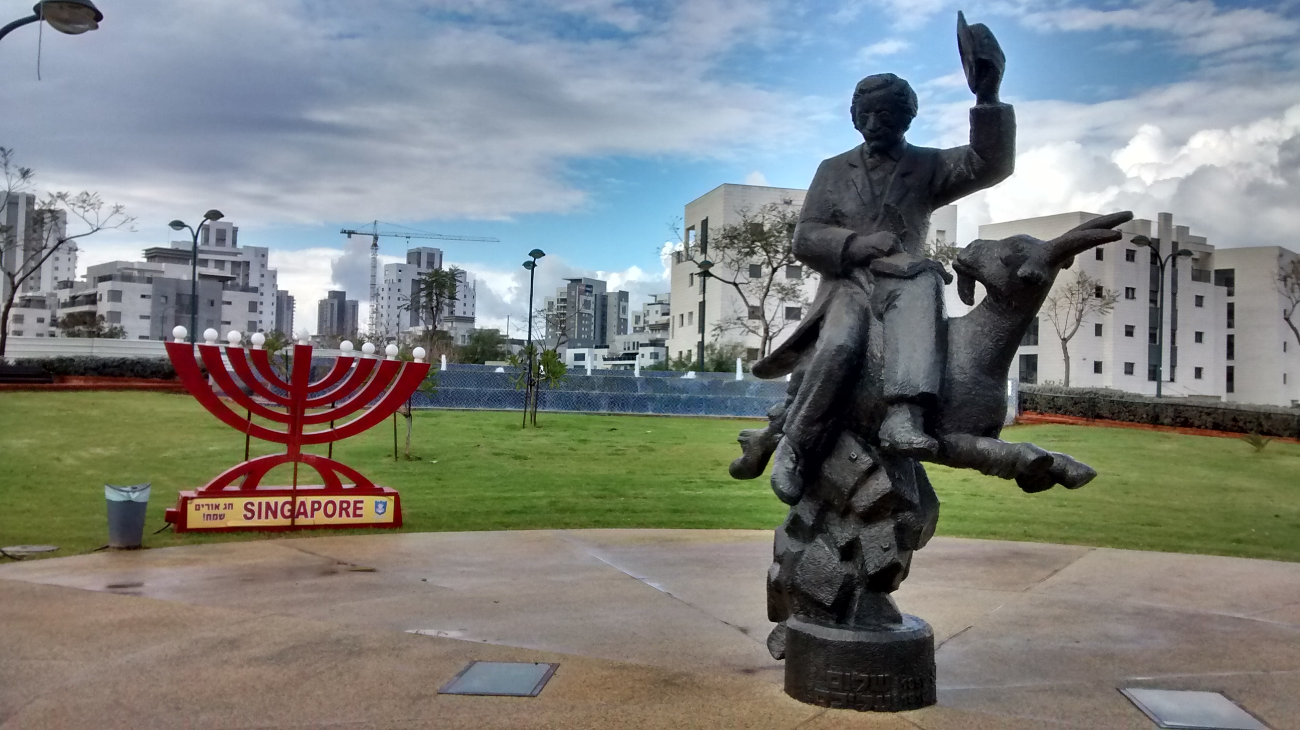 Outdoor Hanukiah in Netanya 2016